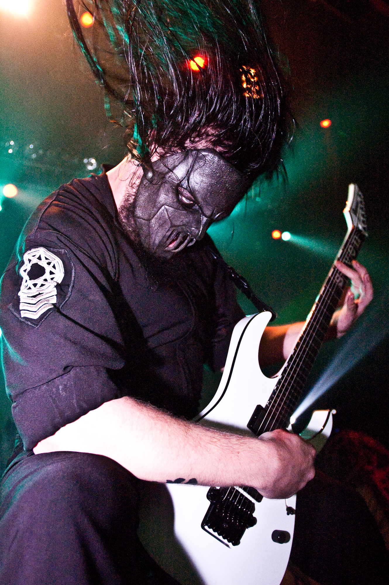 Guitarist Mick Thomson of Slipknot performing in 2005.